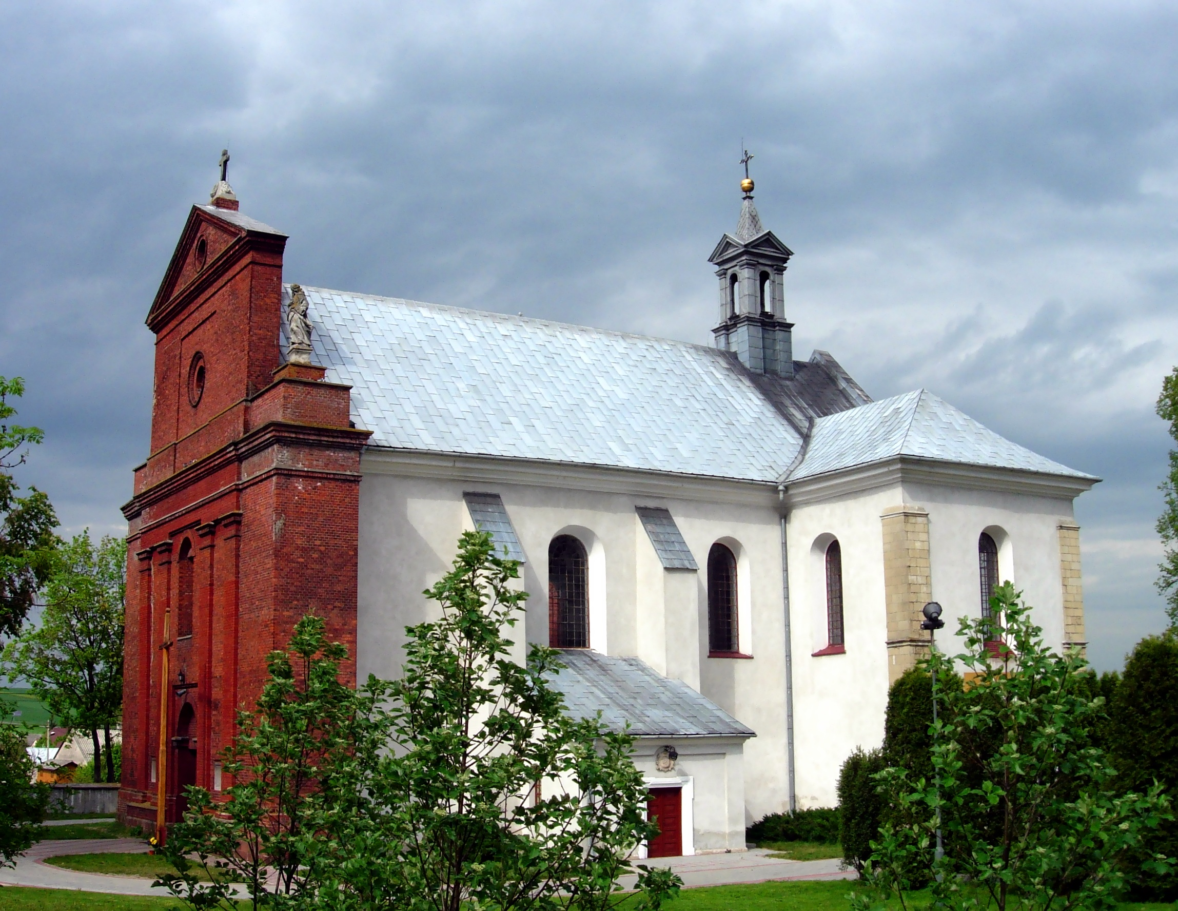 St.Martin church in Wodzisław, Świętokrzyskie Voivodeship, Poland